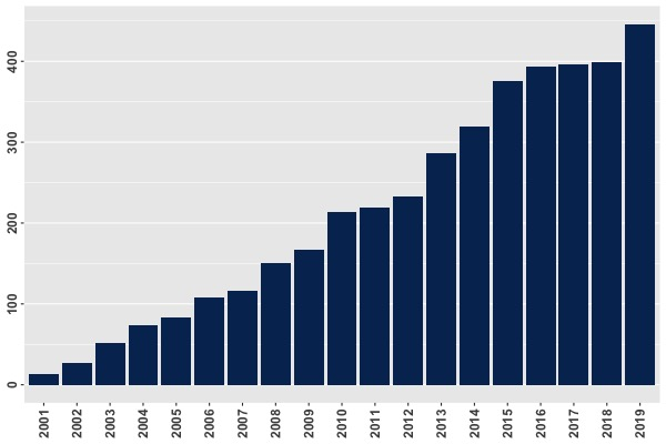 Chart showing the number of citations to Q-Chem per year through 2019.